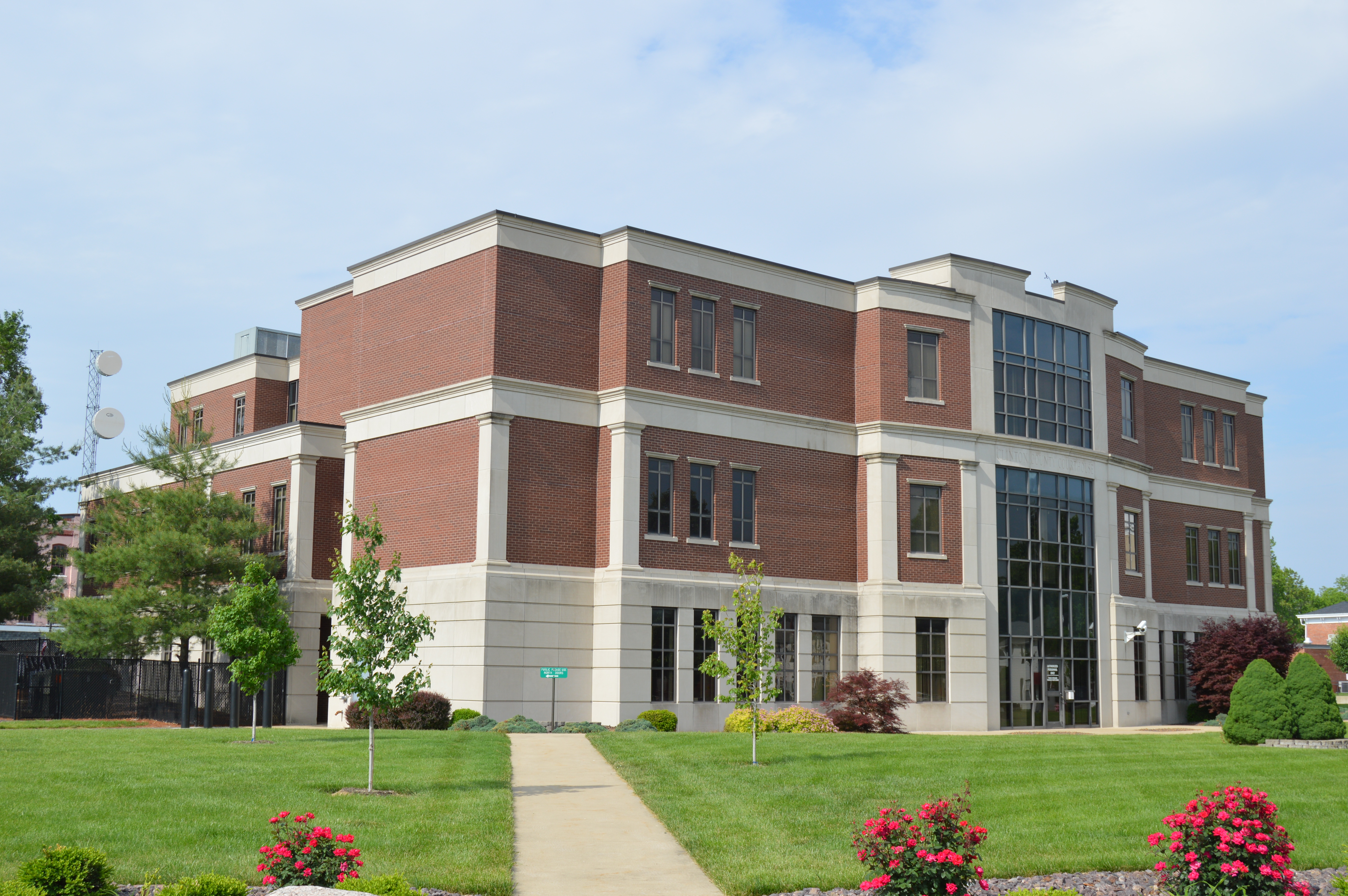 Front and western side of the Clinton County Courthouse, located at 851 Franklin Street (U.S. Route 50) in Carlyle, Illinois, United States. It was built in 1999.